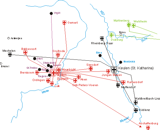 map of the bailiwicks of Koblenz and Alden Biezen of the Teutonic Order (18th century)